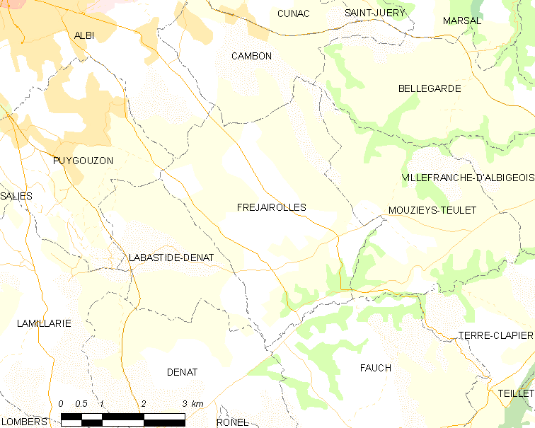 Map of French municipality Fréjairolles